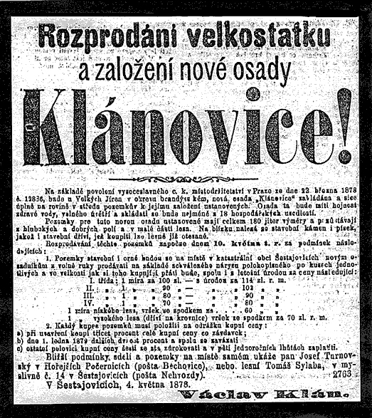 add on the village of Klanovice, Prague, Czech Republic